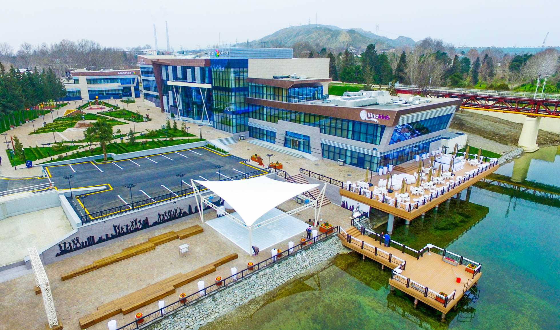 ASAN Mingəçevir və Mingəçevir Kino Mərkəzi